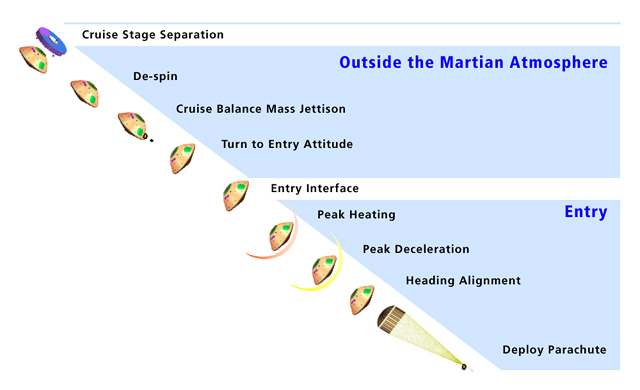 Mars Science Laboratory (MSL) landing diagram for outside the Martian atmosphere and for entry.